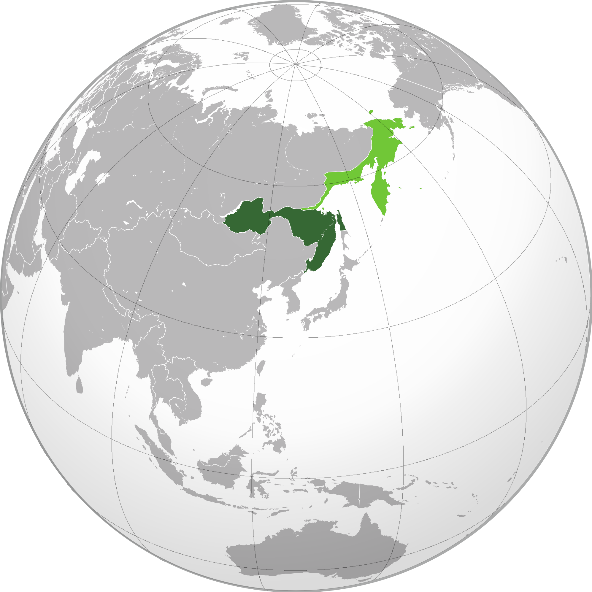 An orthographic projection of the Far Eastern Republic, with maximum extension 1920 (dark green and light green together) and extension from 1920 to 1922 (dark green only).